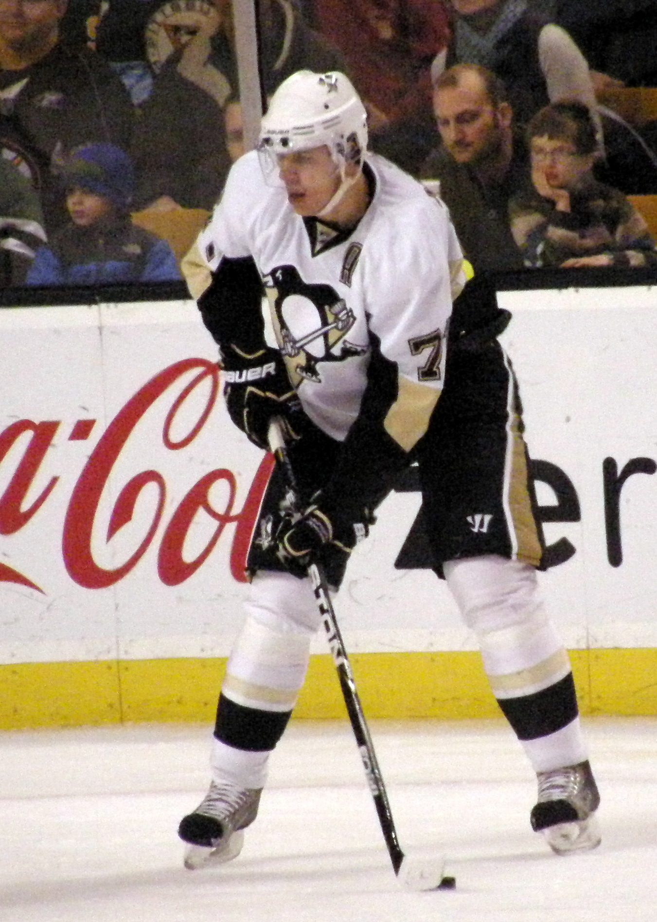 71 Evgeni Malkin (C, PIT) Photos from the Pittsburgh Penguins at Boston Bruins NHL game on 2011-01-15, TD Banknorth Garden